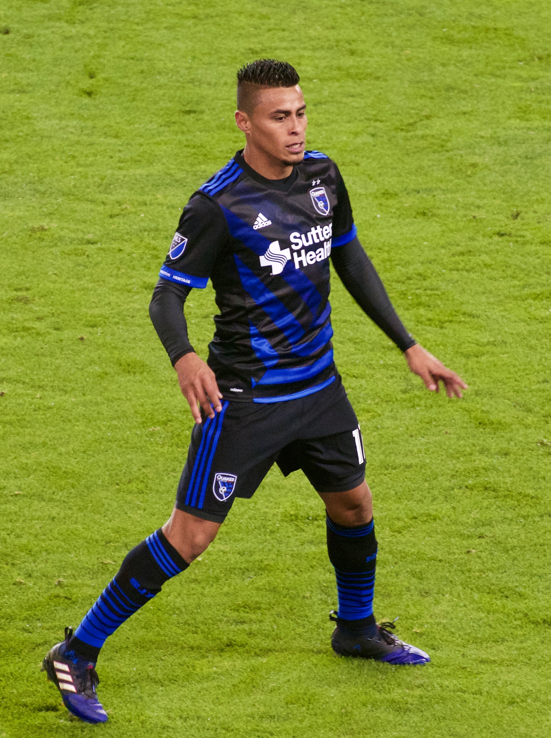 Darwin Cerén playing for San Jose Earthquakes at Avaya Stadium on 8 April 2017